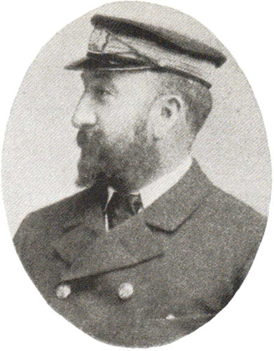 Captain Richard Griffith, commander of the SS Mohegan in the service of the Atlantic Transport Line. The ship sank off the coast of the Lizard Peninsula, Cornwall when she hit The Manacles on 14 October 1898.